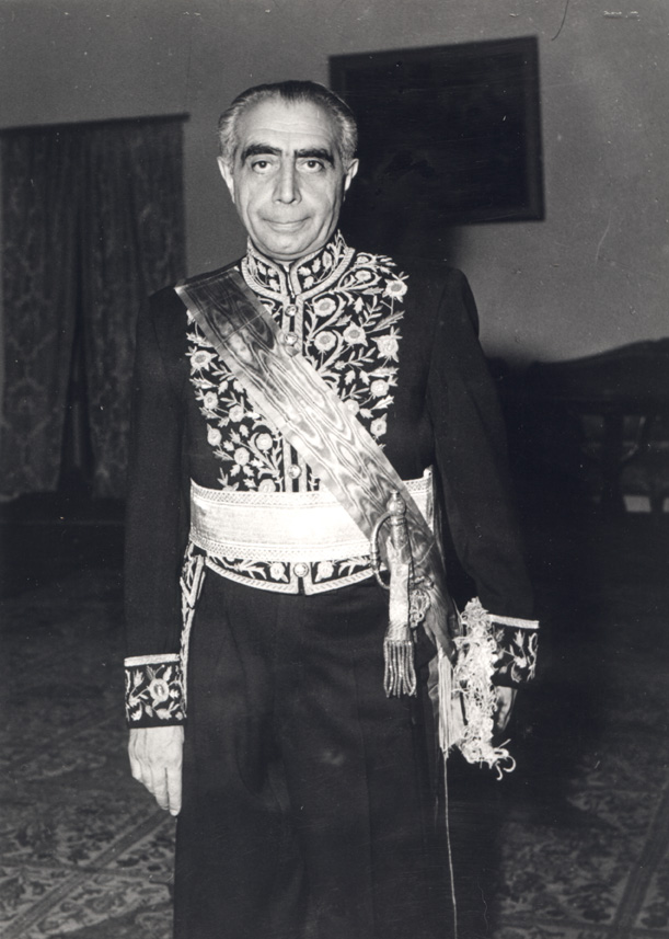 Ali Amini, Prime Minister of Iran